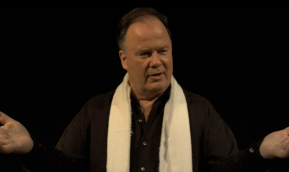 Picture of Dennis Haskins from the web series "Acting School Academy" If you feel like deleting this image for any reason, please enter something on my talk page. daleki (talk) 09:11, 16 December 2008 (UTC)